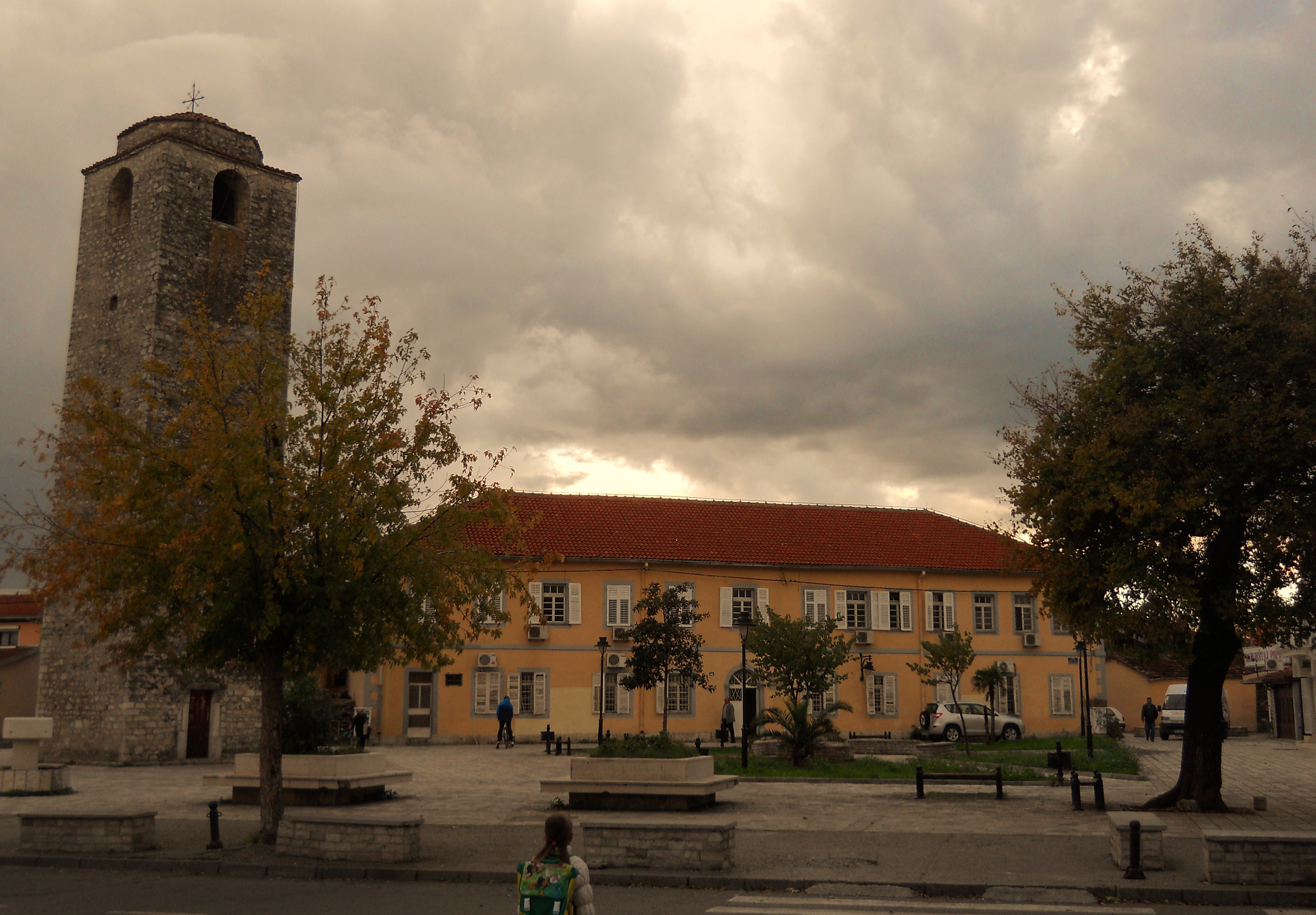 Natural History Museum of Montenegro